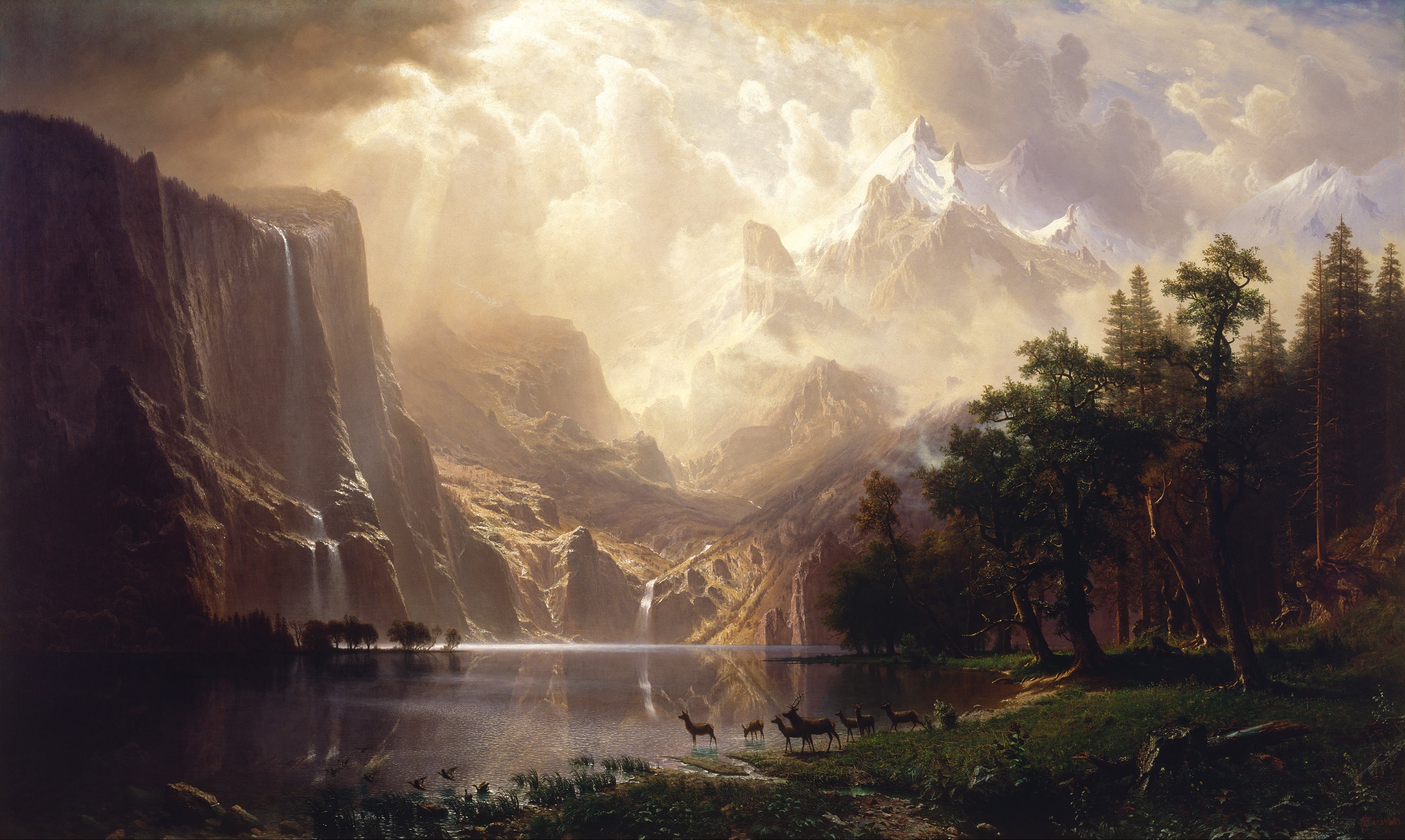 Bequest of Helen Huntington Hull, granddaughter of William Brown Dinsmore, who acquired the painting in 1873 for "The Locusts," the family estate in Dutchess County, New York